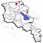 Location map for Alaverdi, Armenia.